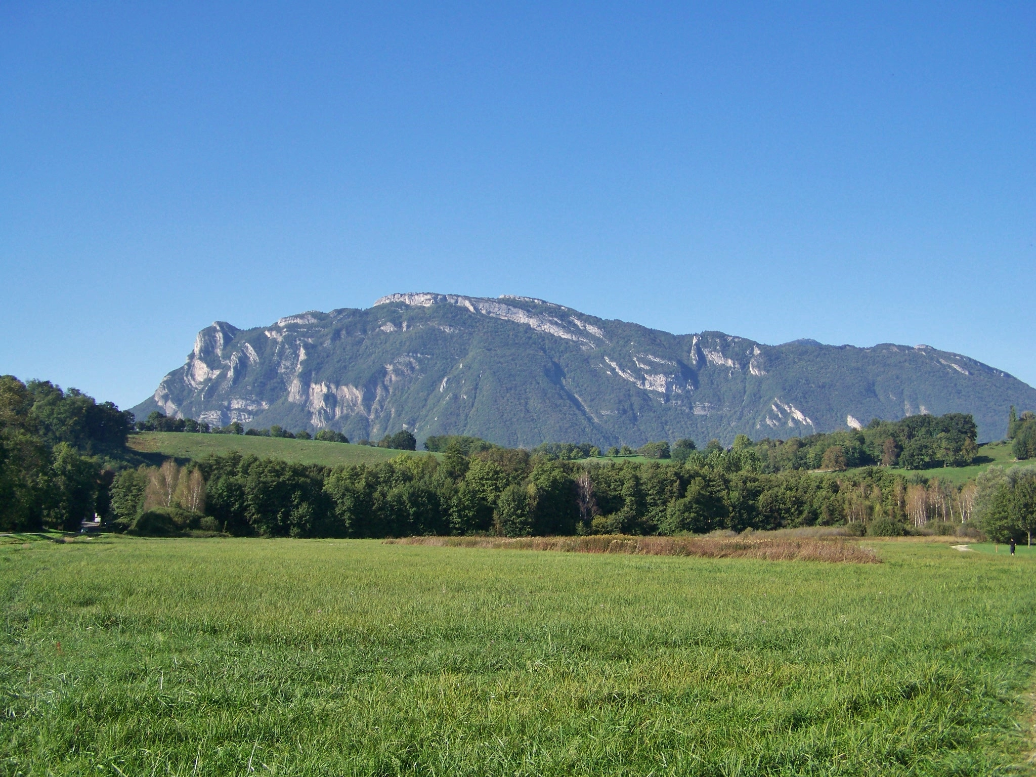 Sight of La Savoyarde (left) and La Roche du Guet (center) mountains, which close the massif des Bauges mountain chain at its very South end, in Savoie, France.